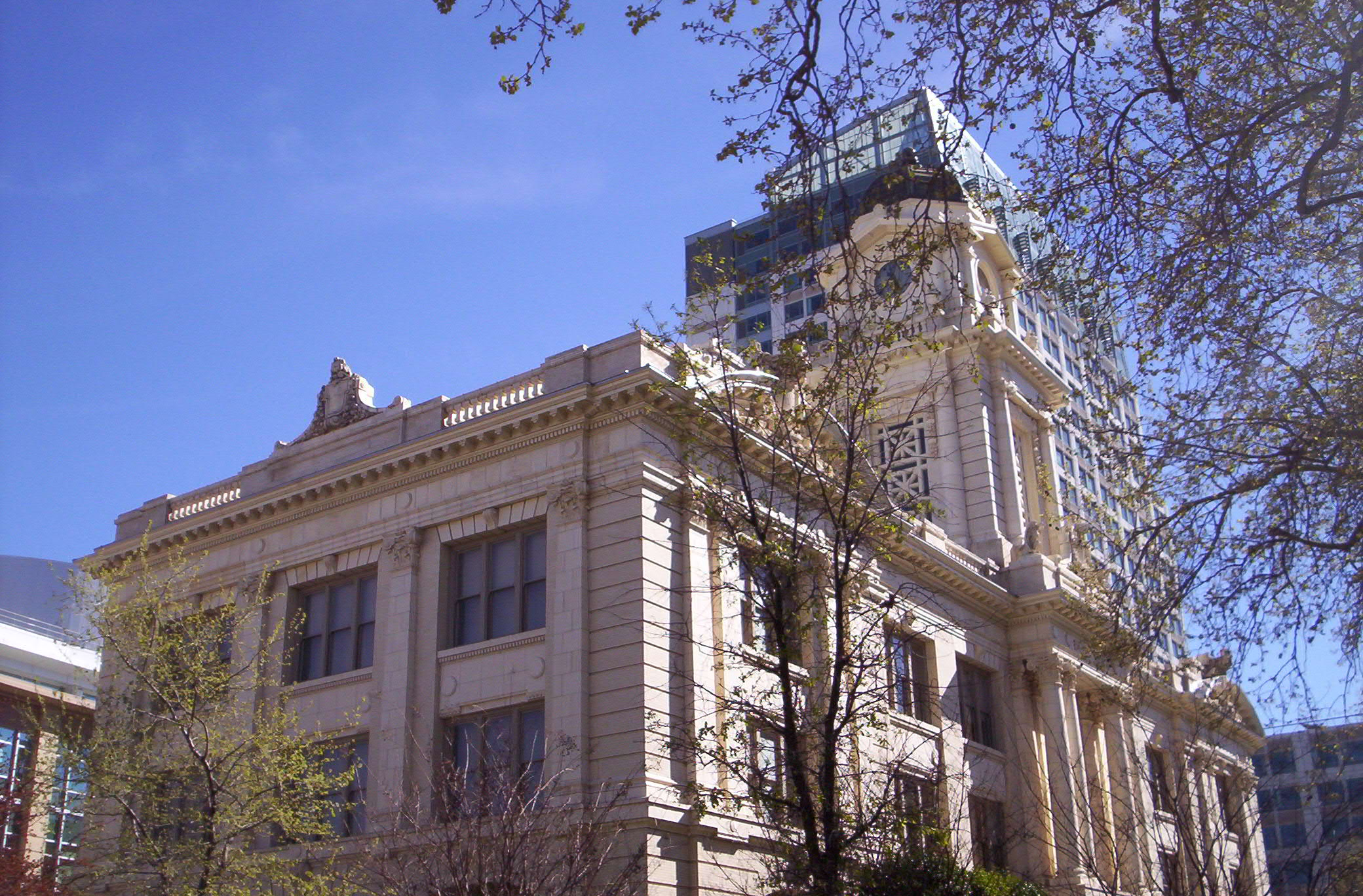 Sacramento City Hall, built in 1911.